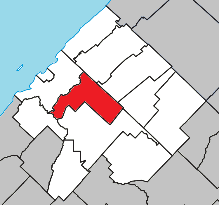 Location of Sainte-Françoise (Bas-Saint-Laurent), Quebec within Les Basques Regional County Municipality.